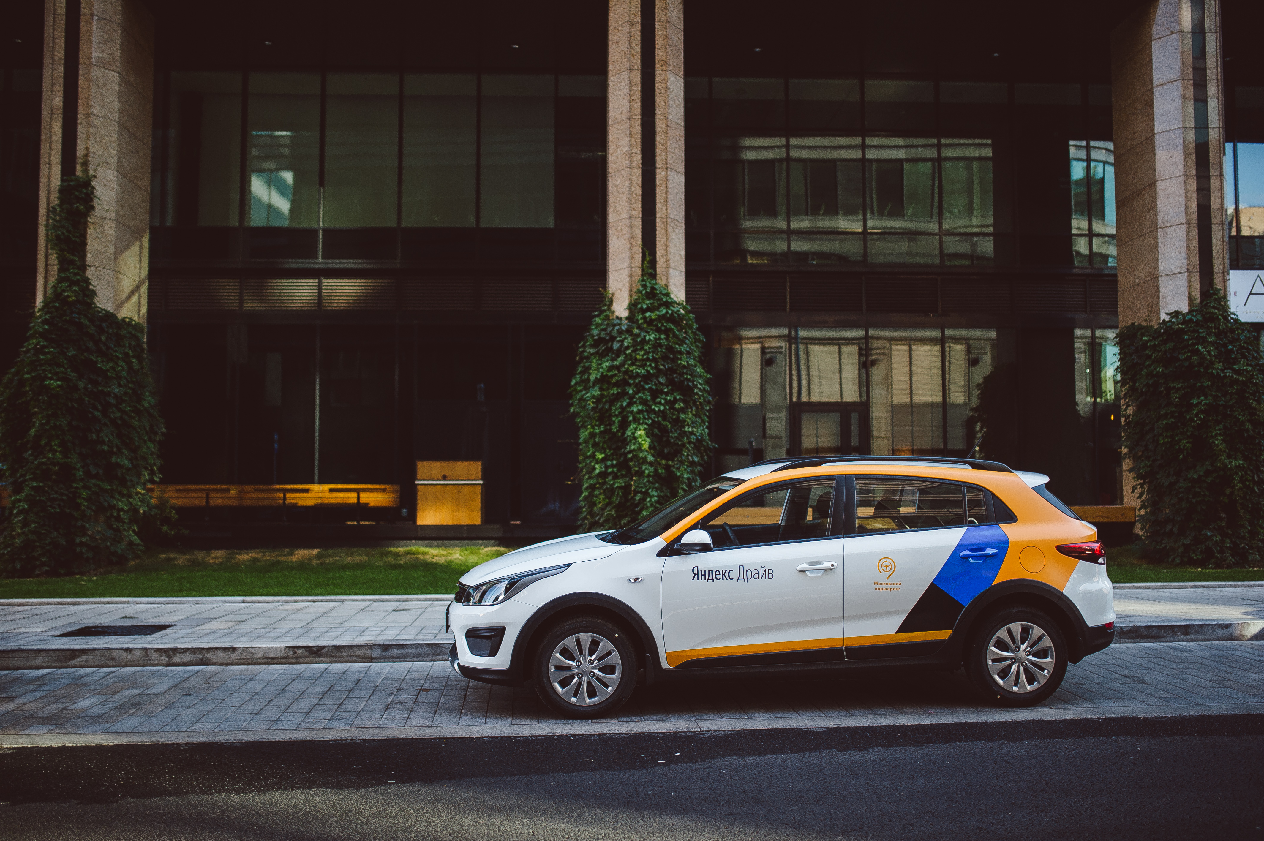 another car by YandexDrive